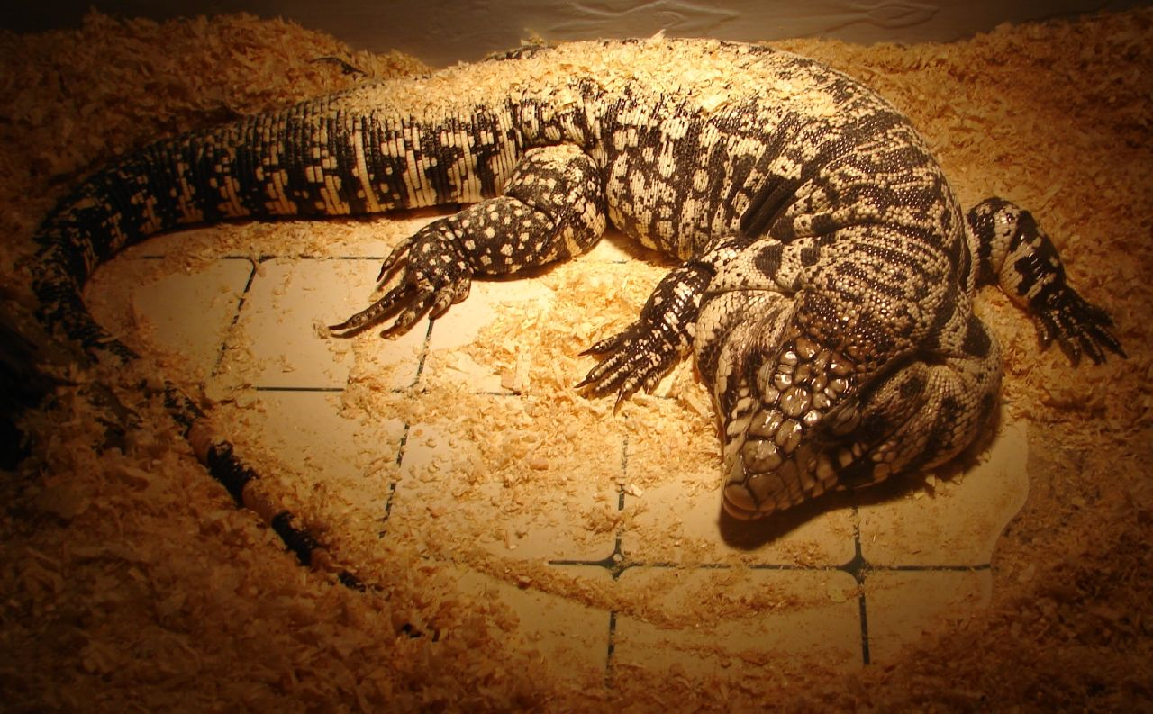 Argentine Black and White Tegu